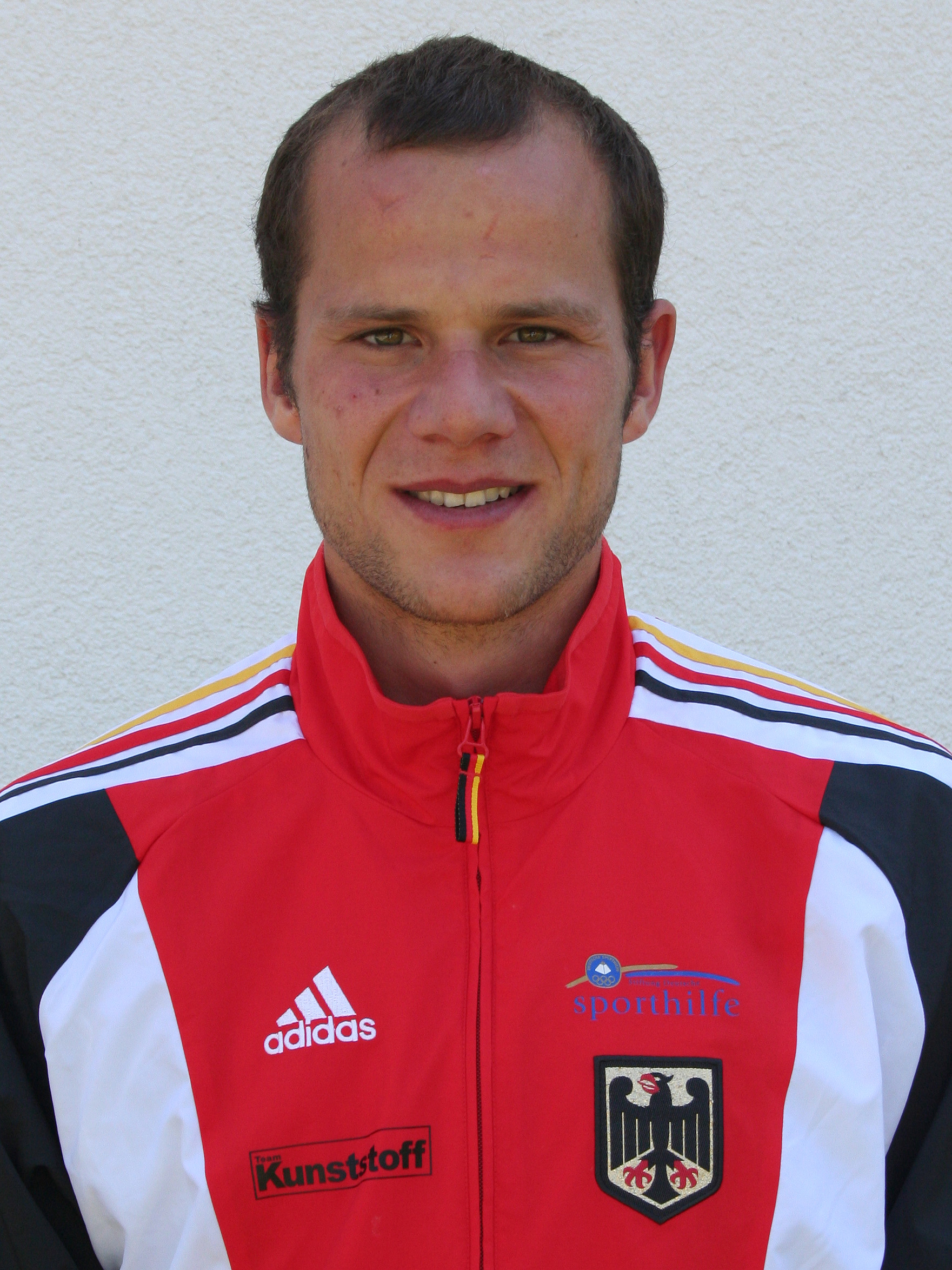 Max Hoff Wolrd Champion Canoe Sprint